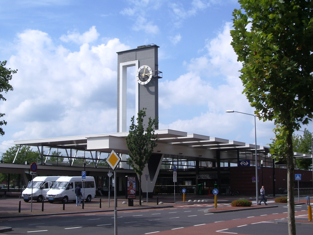 Almelo trainstation, Netherlands Its number in the list of 89 proposed monuments is: 2013-06 For more information see Dutch WIkipedia: 89 topmonumenten uit de periode 1959-1965